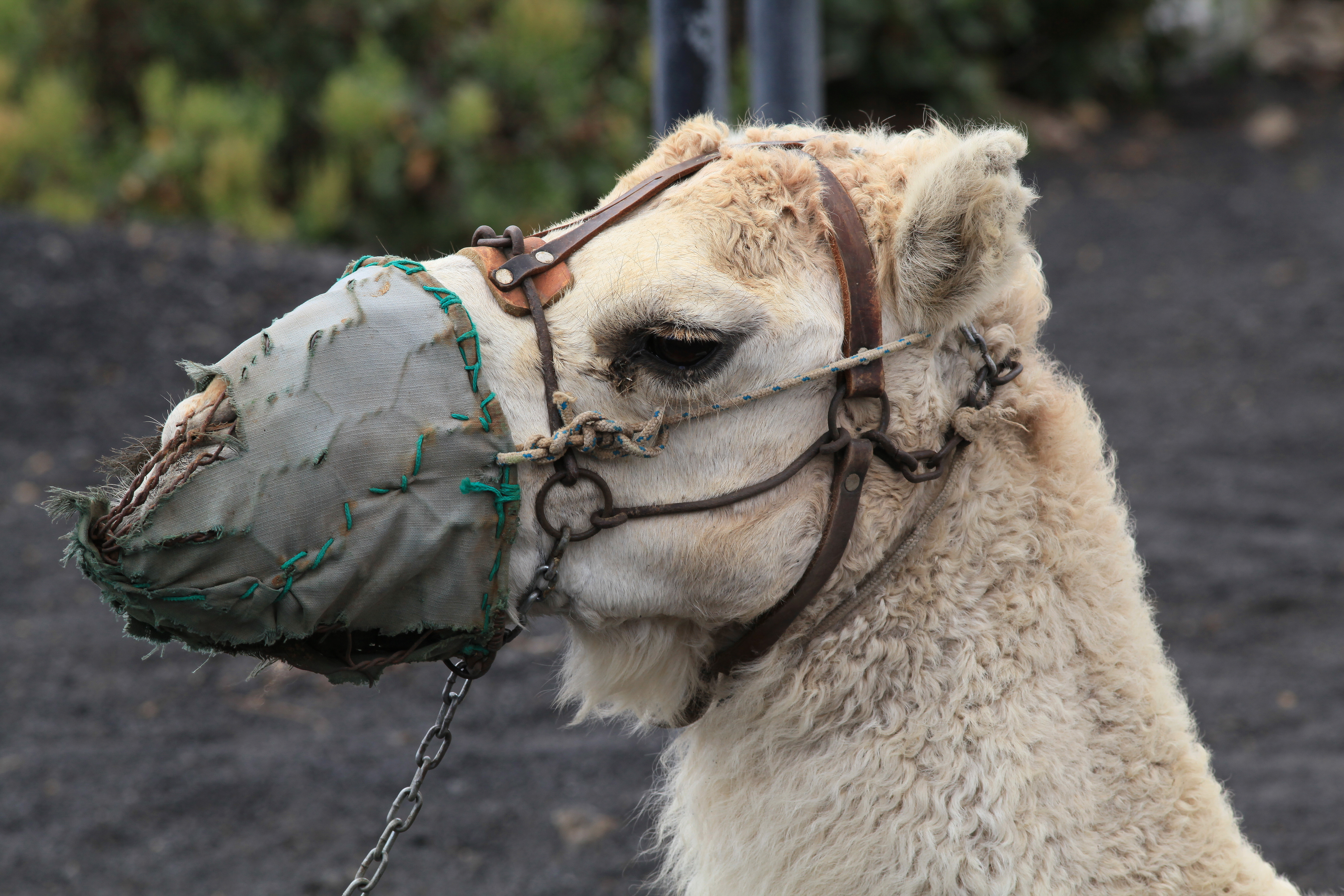 San Antonio volcano in Fuencaliente, La Palma, Canary Island, Spain